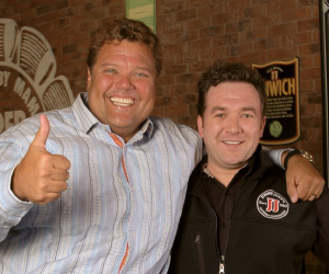 Jimmy John Liautaud smiles for a picture with Jimmy John's President James North.